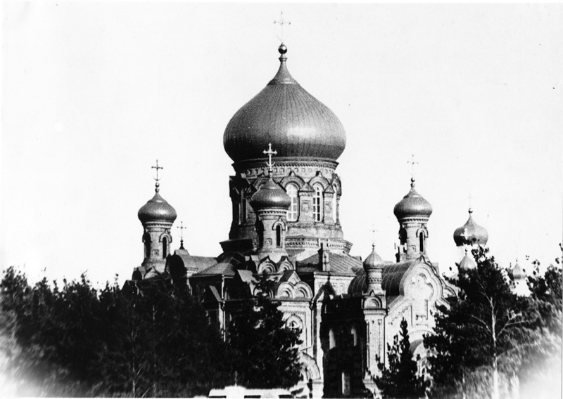 Cathedral of the Ascension Monastery Skorbjashchensky (Our Lady of All Who Sorrow) in Nizhny Tagil. Photos of the early twentieth century.